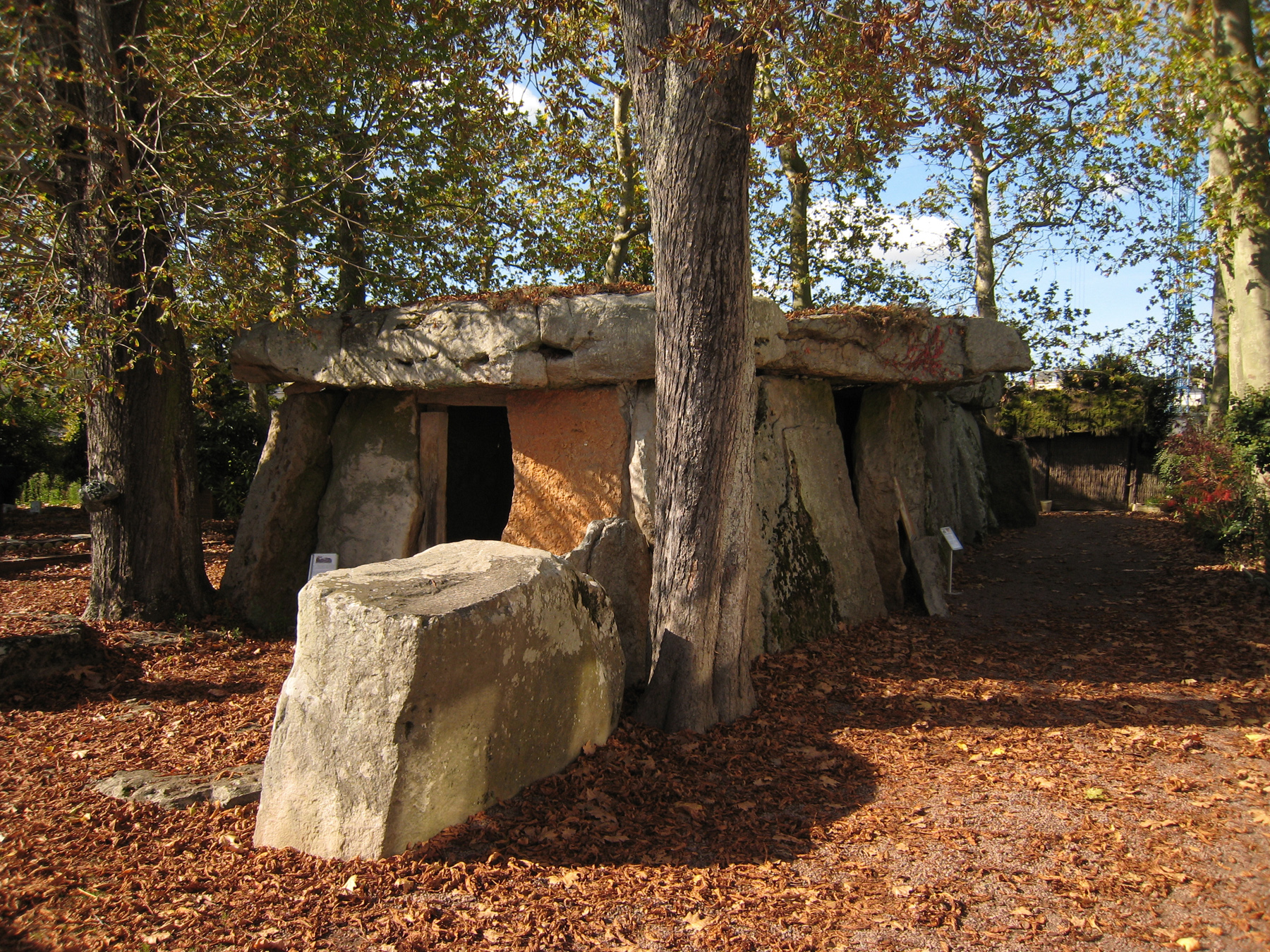 The largest dolmen in a fine state of preservation which France perhaps possesses is the Great Dolmen of Bagneux, near Saumur, in the valley of the Loire.